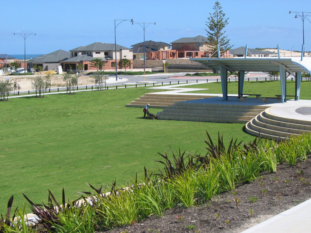 Park around development in Jindalee, Western Australia